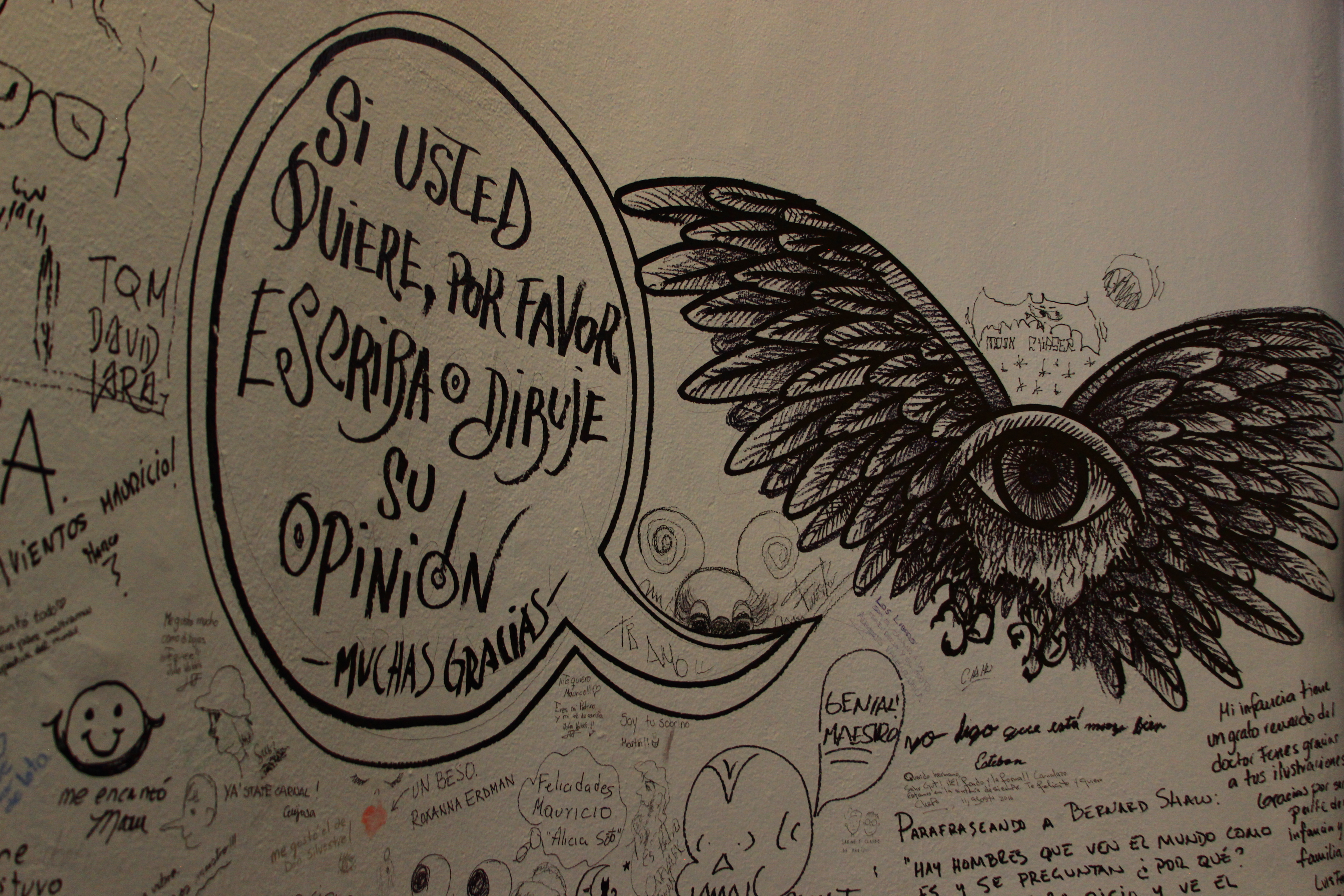 Normal view of a graffiti making a suggestion "If you like to, please, write or draw your opinion - Thank you very much" in the Luis Cardoza y Aragón Gallery in the 'Bella Época' Cultural Centre in La Condesa neighborhood, Mexico City, Mexico